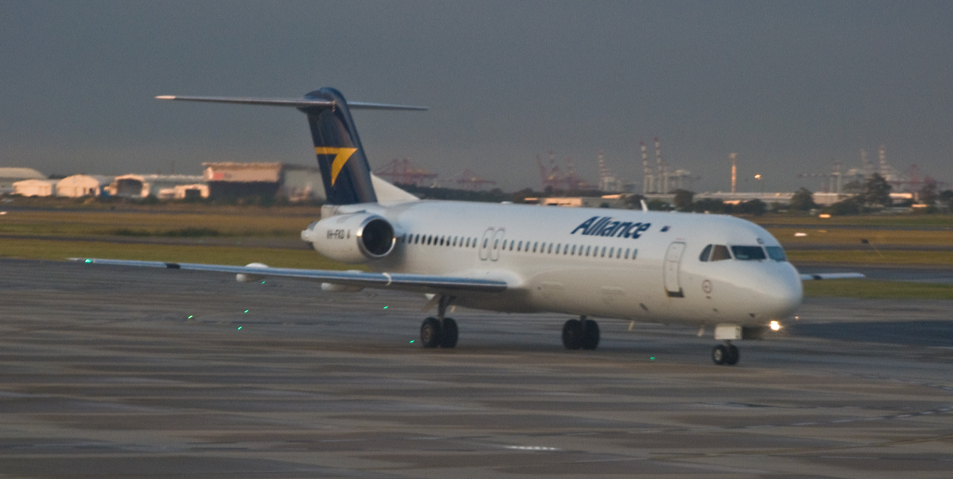 Alliance Airlines Fokker 100